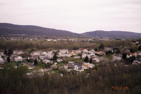 Photograph taken April 2004 looking down on the southern end of the Village of Port Griffith in Jenkins Township, Pennsylvania.